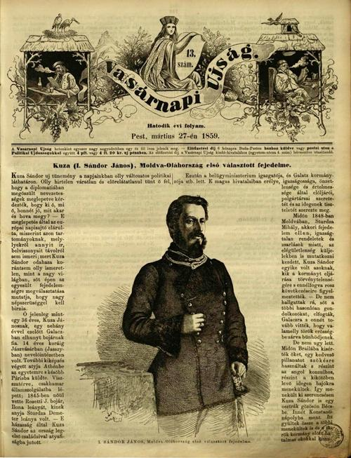 Vasárnapi Ujság newspaper about Cuza's double election in Moldavia and Wallachia